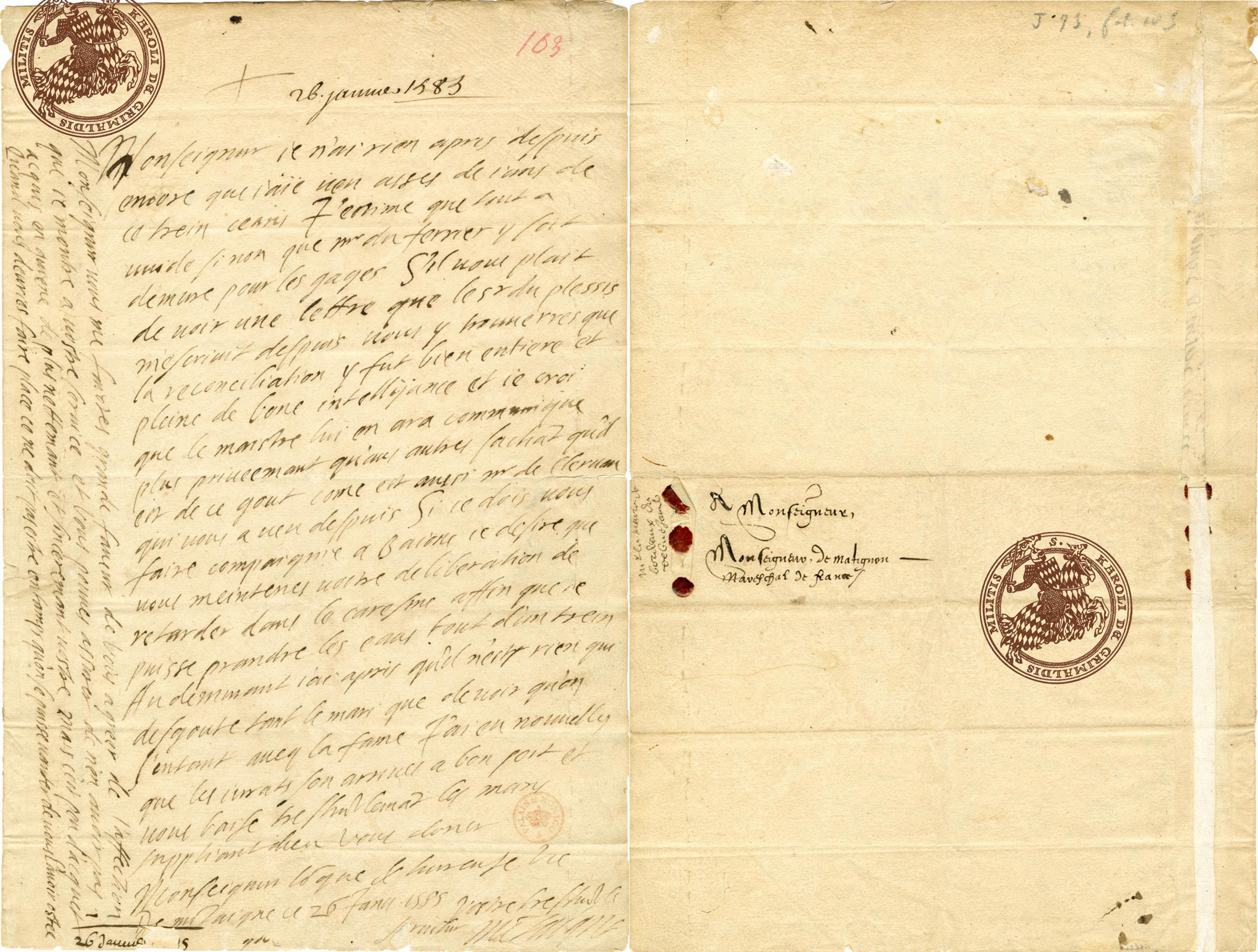 Letter from Michel de Montaigne to the Marechal de Matignon, 26 January 1585.